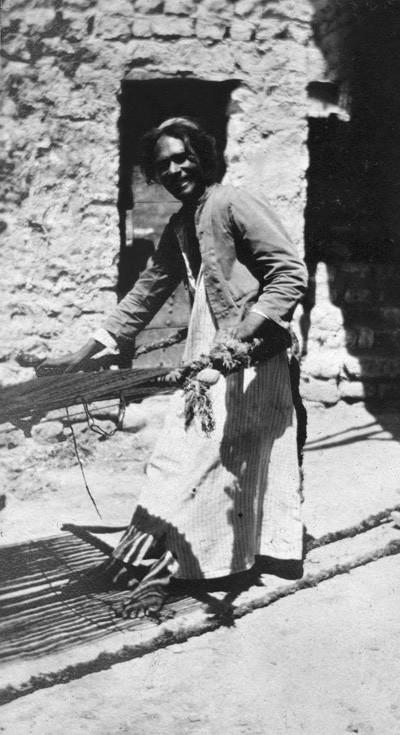 Photograph by a British Officer from 1918 of a Jewish weaver in the small town of Ramadi in the middle Euphrates region of Iraq, weaving a typical goat-hair tent material used by the beduin tribes of Mesopotamia and the Syrian desert to the west. " Ar-Ramadi is a wealthy settlement with about fifteen hundred inhabitants. The Beit [Family] Aram is the richest family. For about forty years, or since the time of Midhat Pasha, who greatly improved, or one may say, even founded Ar-Ramadi, about 150 Jews have lived in the town together with the Moslems and have had their own synagogue". observations in 1912, by ALOIS MUSIL, AMS PRESS. NEW YORK